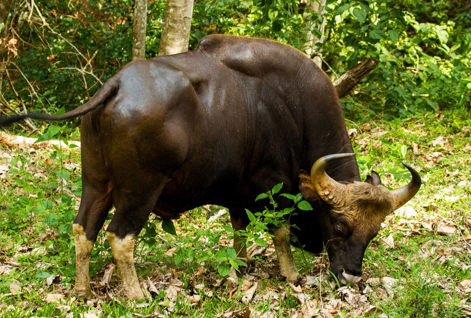 Gaur or Indian Bison (Bos gaurus).